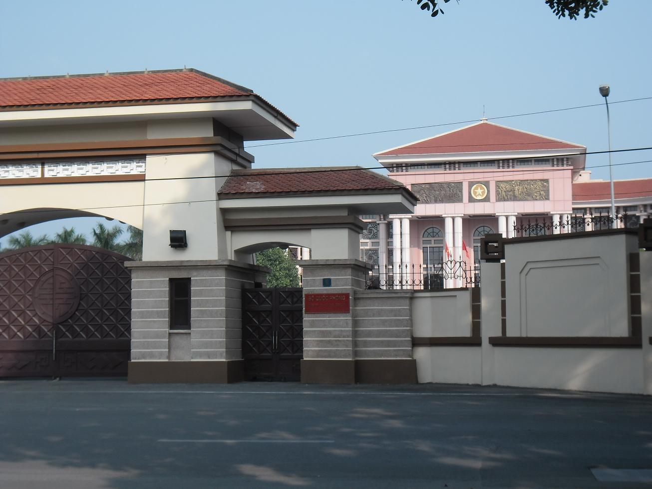 Cổng chính Bộ Quốc Phòng và một phần Đại sảnh của Bộ quay ra đường Nguyễn Tri Phương